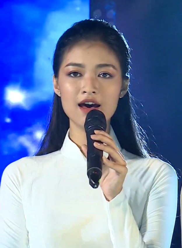 Nguyễn Hà Kiều Loan, screen capture from video of MEOW ENTERTAINMENT.